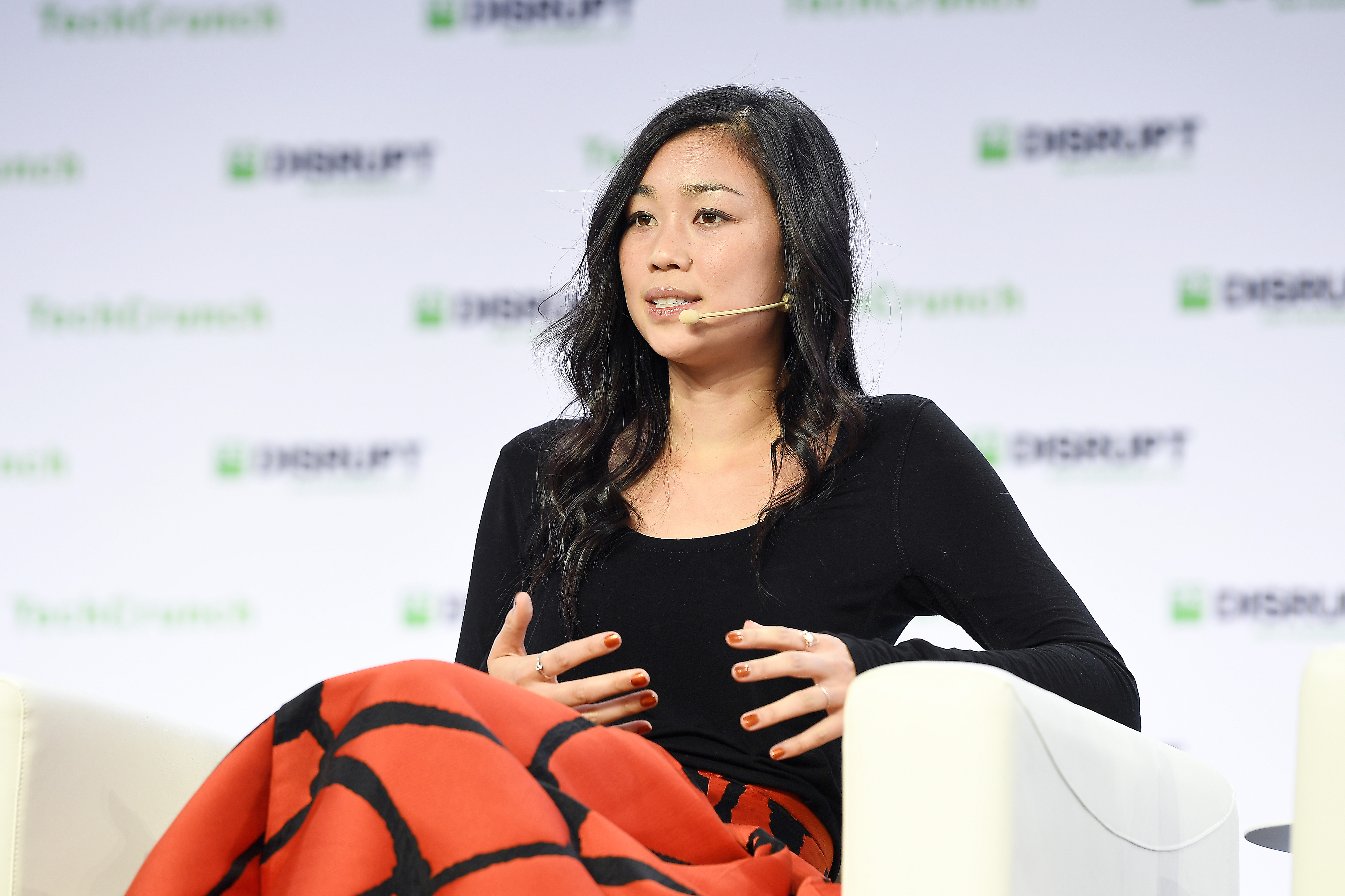 Tracy Chou at TechCrunch Disrupt San Francisco 2019 - Day 3